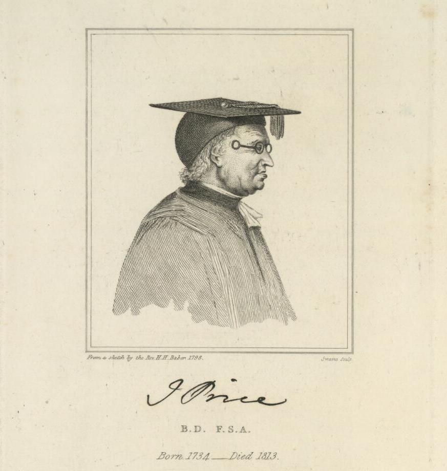 A portrait from the Welsh Portrait Collection at the National Library of Wales. Depicted person: John Price – Welsh librarian and Anglican priest